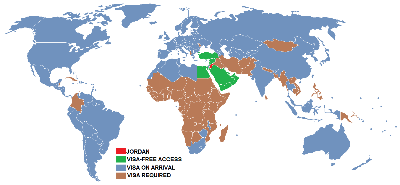 information